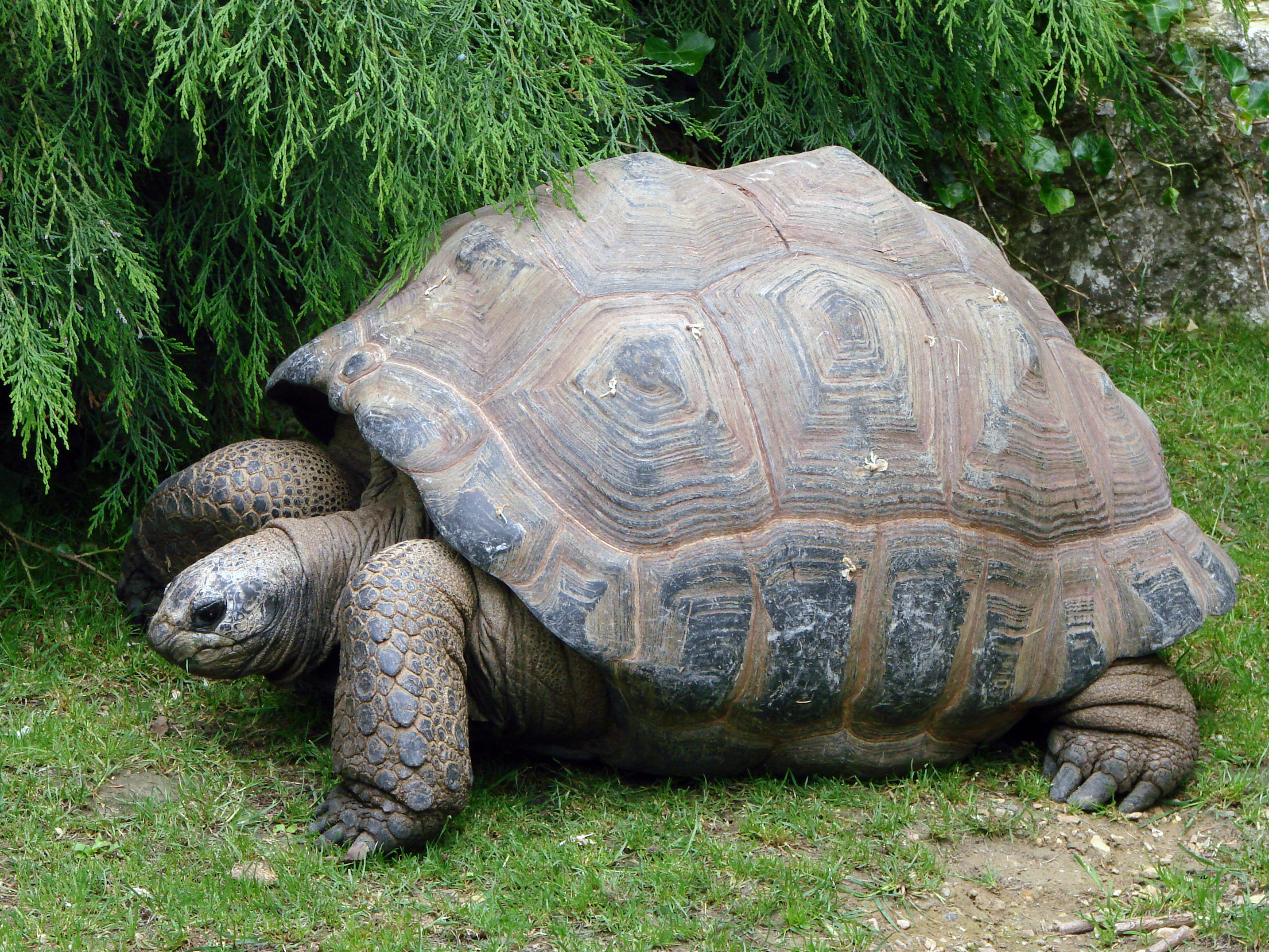 Aldabra giant tortoise (Dipsochelys elephantina). ZooParc de Beauval,Loir-et-Cher,France.